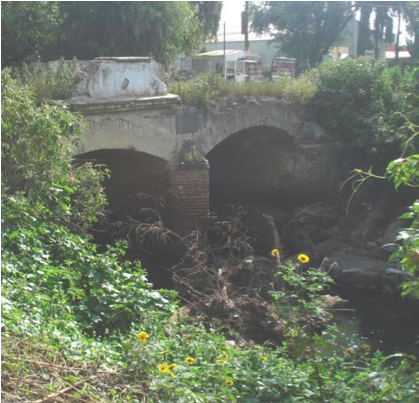 Puente de la Avenida San Antonio